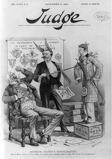 Caricature of Amercian lawyer and socialite Ward McAllister as "Snobbish Society's Schoolmaster". Library of Congress description: "Caricature of Ward McAllister (1855-1908) as "an ass" telling Uncle Sam he must imitate "an English Snob of the 19th Century" or "you will nevah be a gentleman"; Uncle Sam is shown laughing heartily."